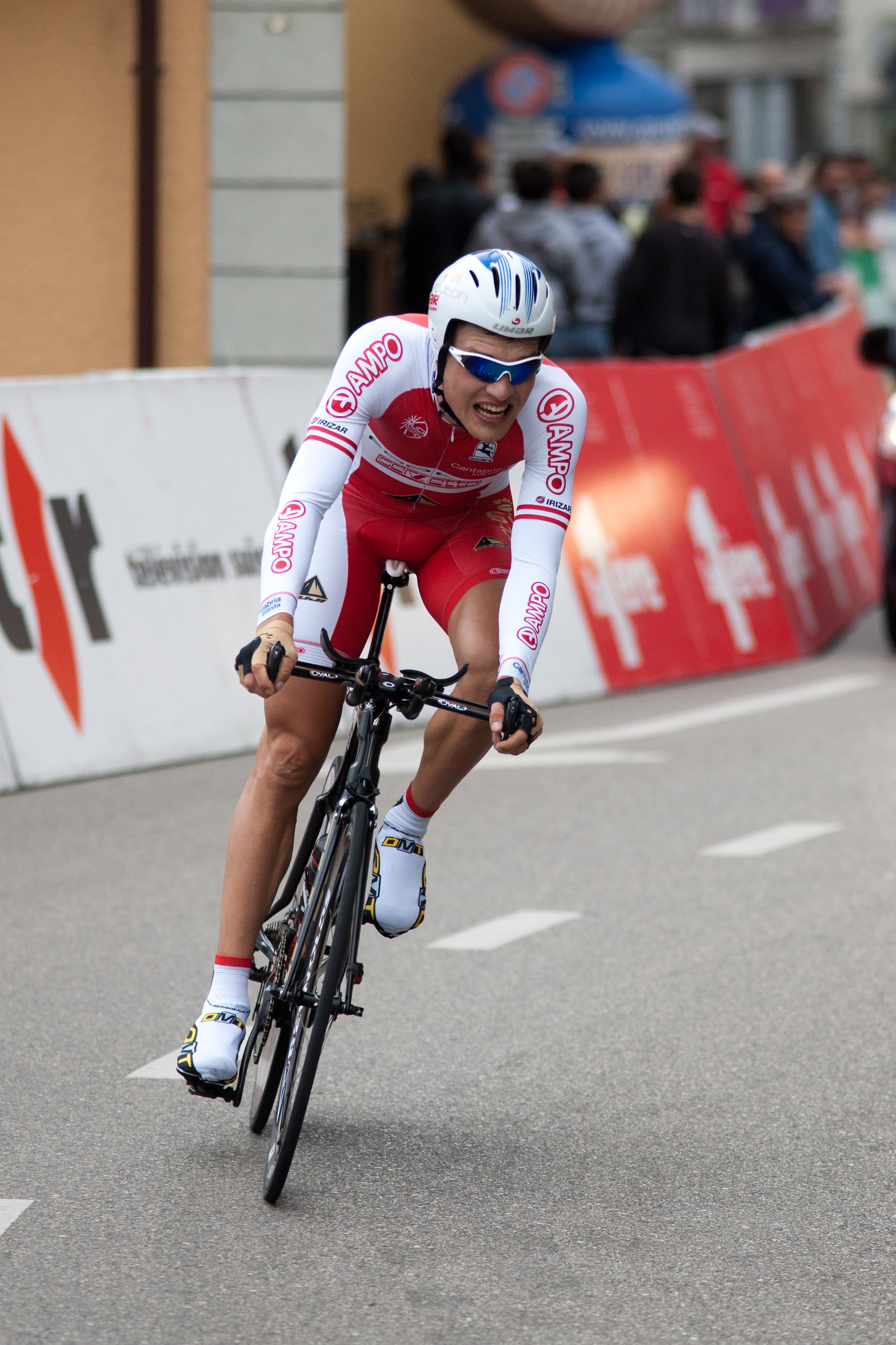 Matthias Brandle during the 3rs stage of the Tour de Romandie 2010.